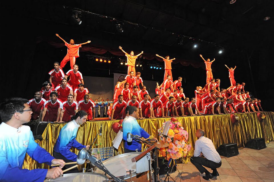 Ginástica montada, Rio de Janeiro. Pirâmide.